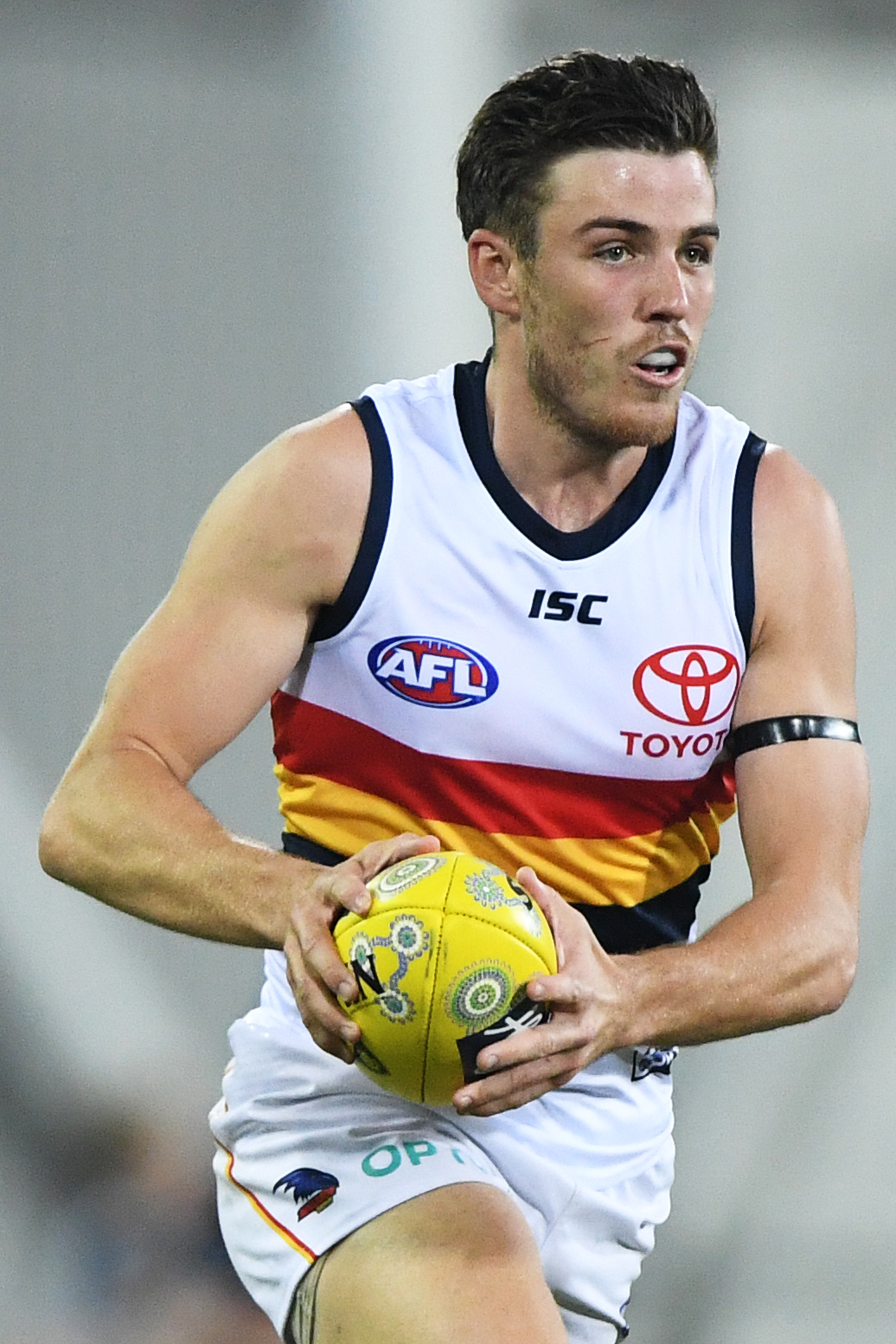 Paul Seedsman of Adelaide during the 2019 AFL round 11 match between Melbourne and Adelaide at TIO Stadium on Saturday, 1 June 2019 in Darwin, Northern Territory.